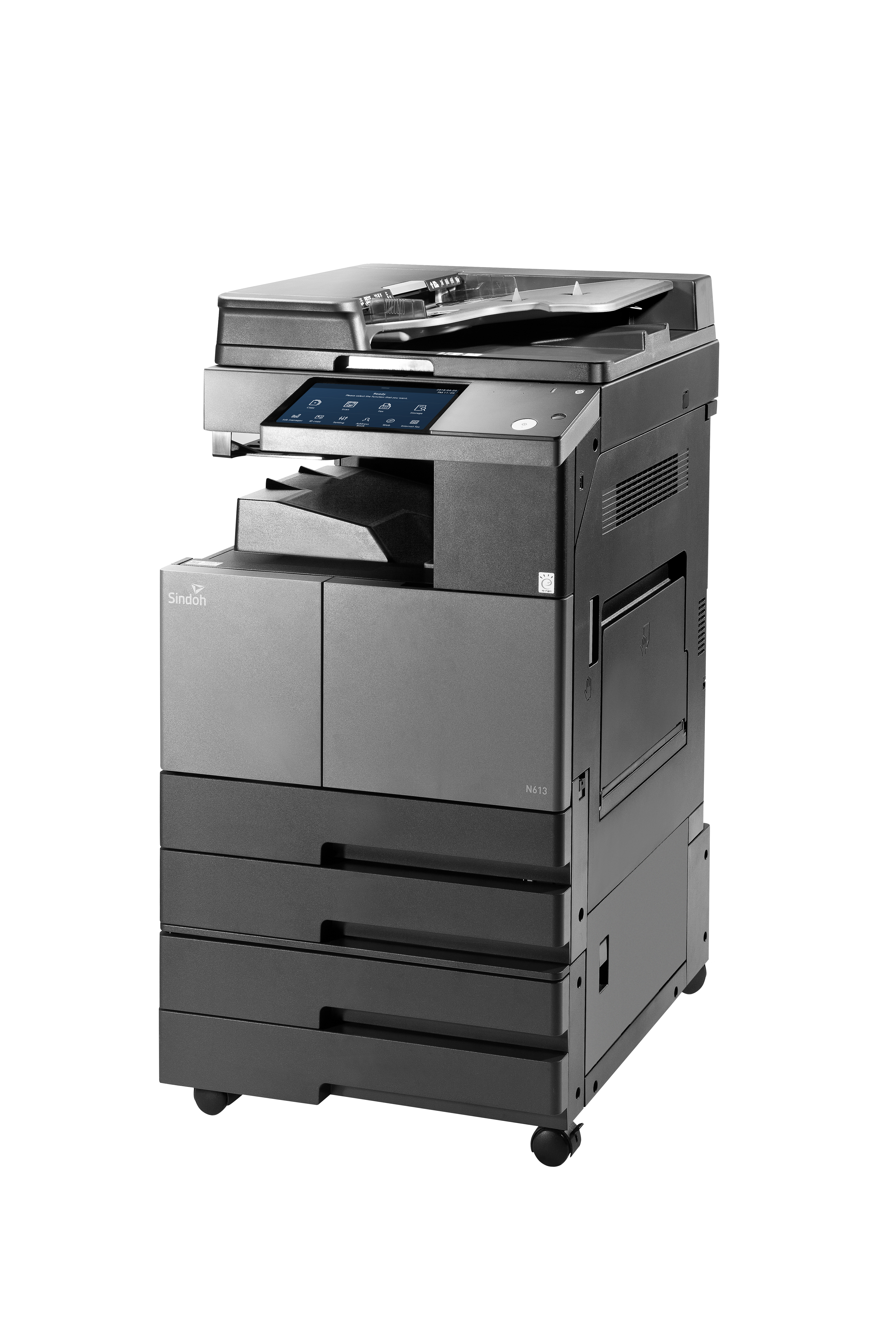 mono digital MFP N610 series